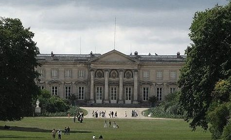 Château de Compiègne, view from the park